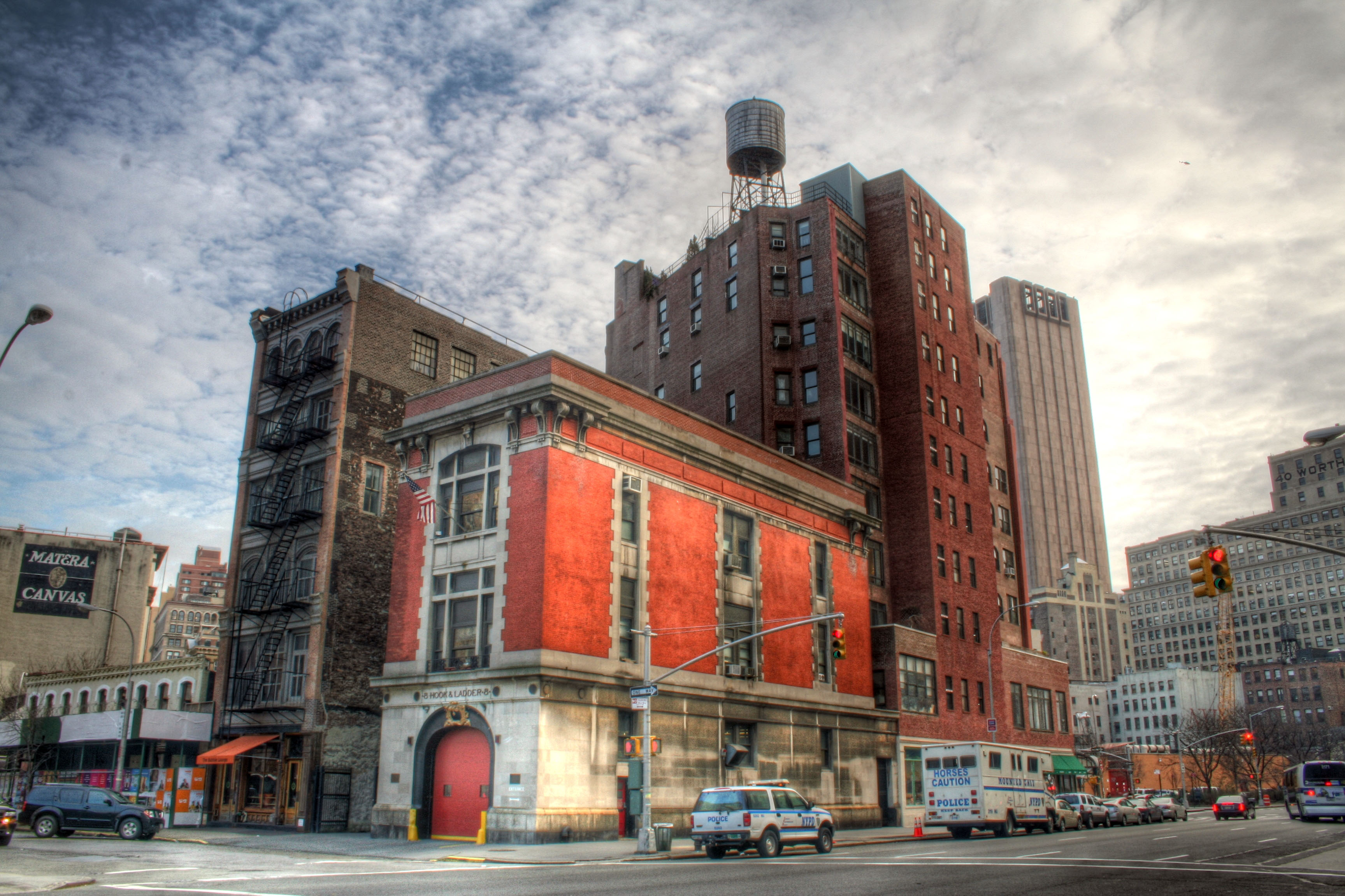 Looking southeast across North Moore and Varick Streets at the FDNY Firehouse that was used for the exterior shots in Ghostbusters, and later modeled as the firehouse in the cartoons. It is located at: Hook & Ladder 8 14 N. Moore Street New York, NY 10013